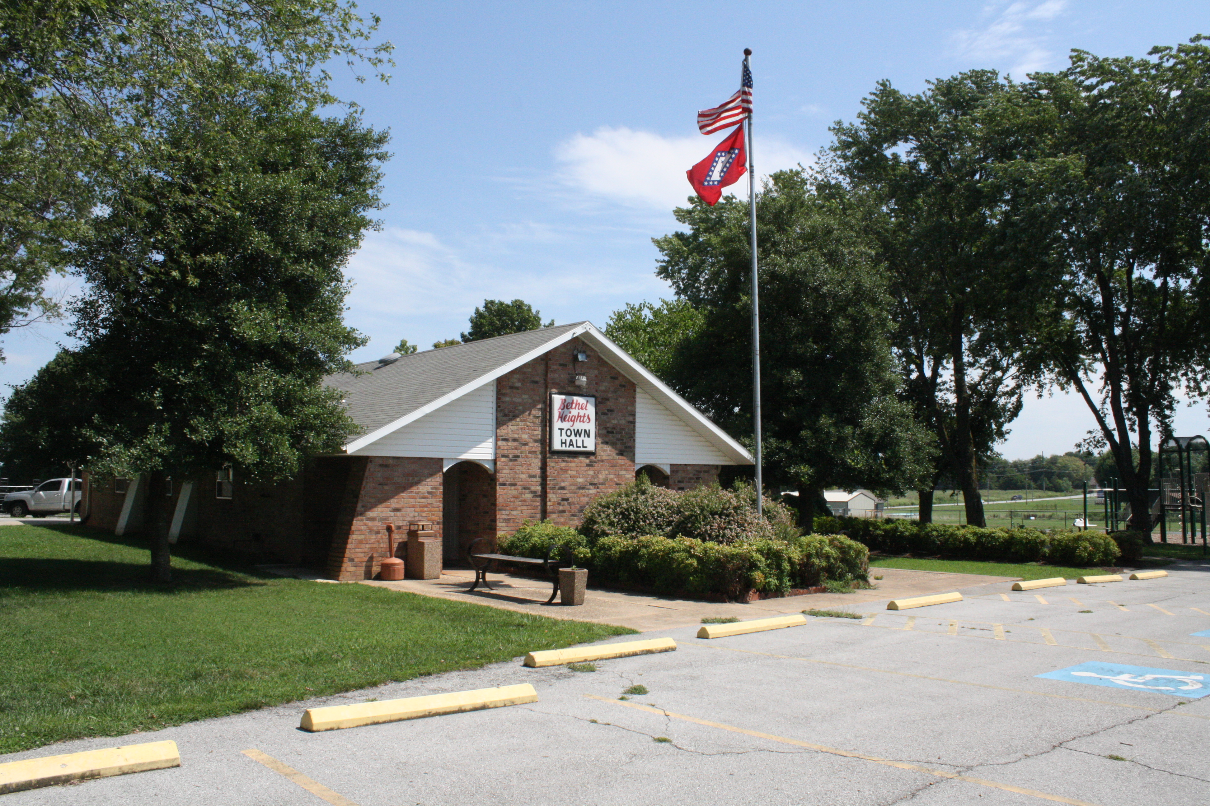 The City Hall building of Bethel Heights, Arkansas